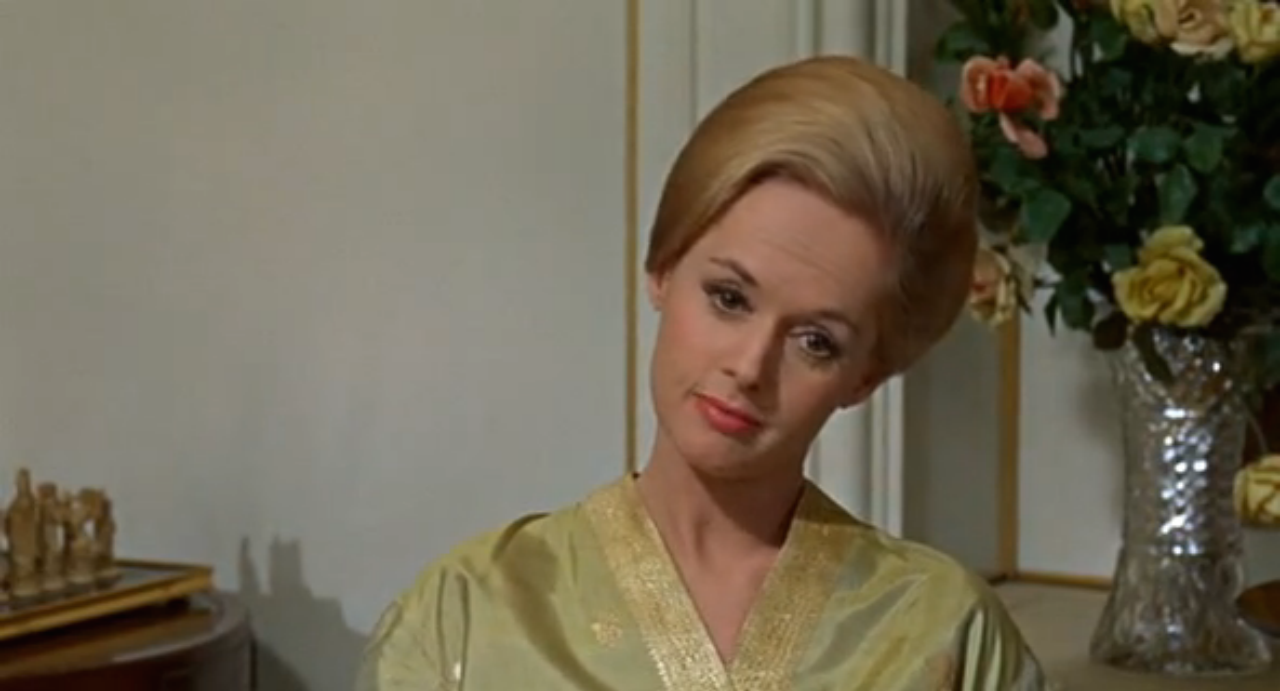 Tippi Hedren in "A Countess from Hong Kong" trailer.